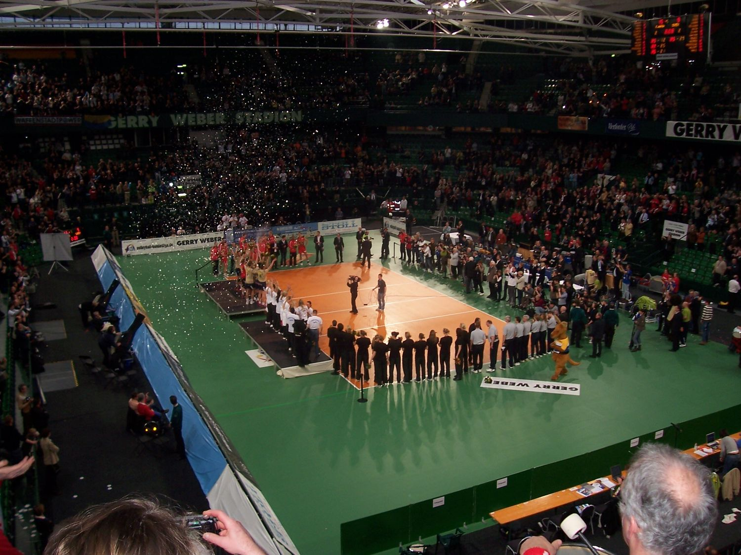 award ceremony of the German volleyball cup final 2008 in the Gerry-Weber-Stadion in Halle